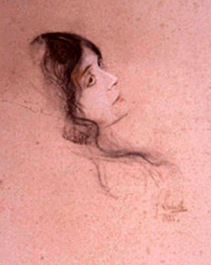 Portrait Eleonora Duse (1858–1924) by Franz von Lenbach (1836-1904)